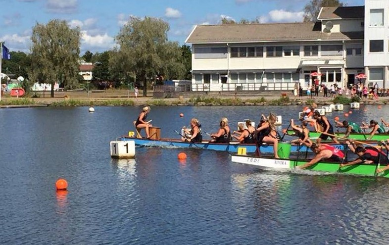 Finish line of 200m in Swedish National Championships of Dragon Boat 2018 in Nyköping. Small boat mixed. Team Eagle Mountain Dragons won the title (Örnsbergs Kanotsällskap).